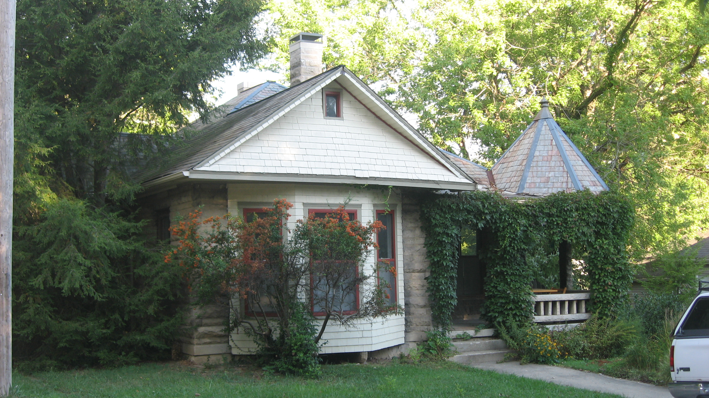 Front and southern side of the Breaking Away House, located at 756 S. Lincoln Street in Bloomington, Indiana, United States. Built in 1890, it is part of the locally-designated Bryan Park Study Area. Its name is derived from its appearance in the 1979 film Breaking Away, much of which was filmed at this house.